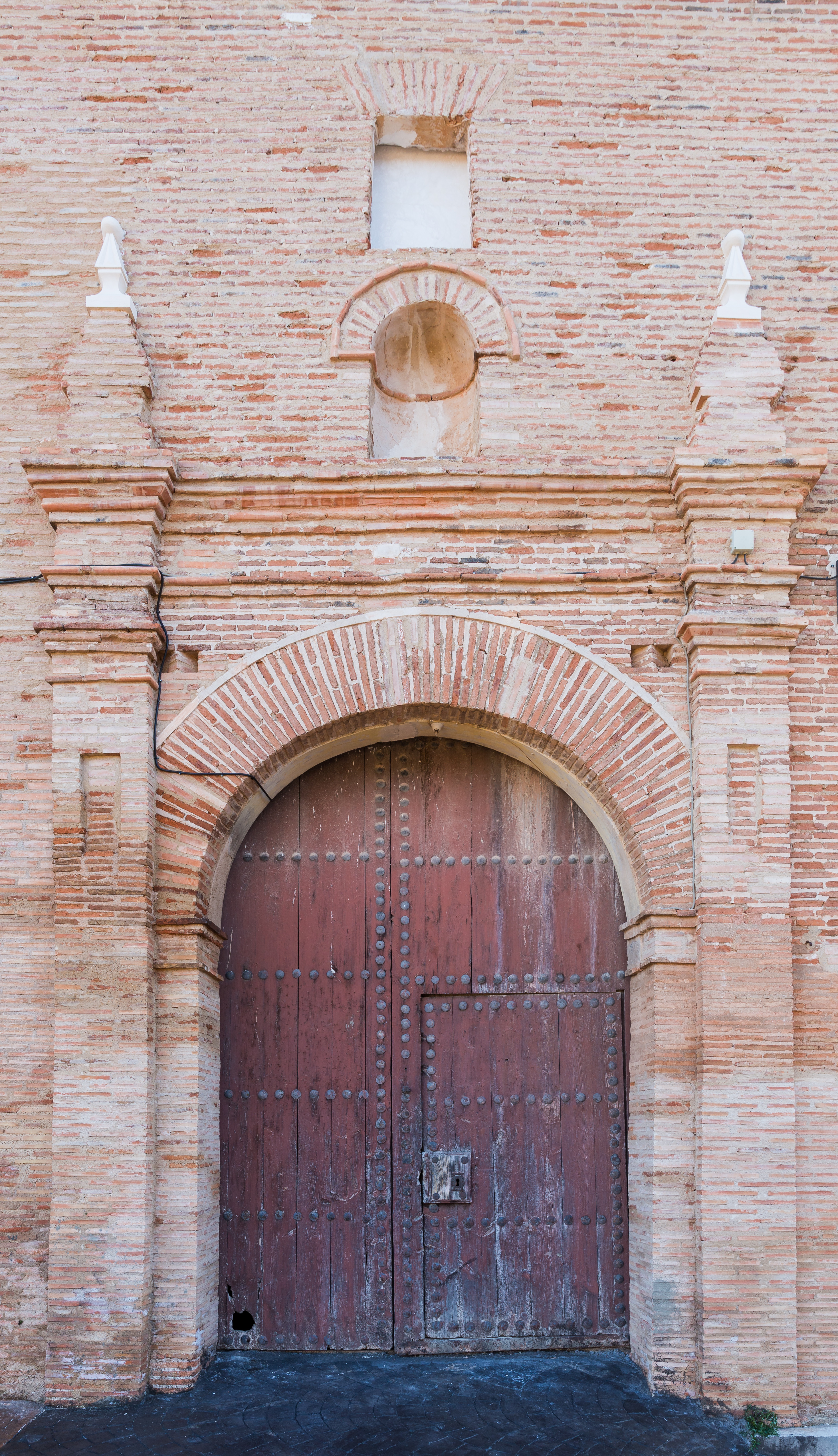 Church of St Julian, Nuévalos, Zaragoza, Spain